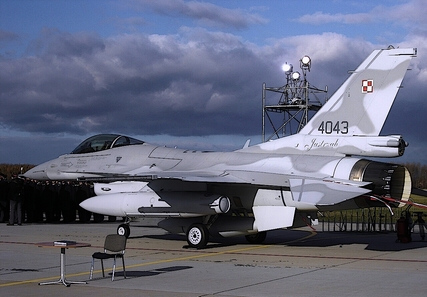 F-16 Polish Air Forces at Krzesiny Airfield - ceremony of official introduction under Polish nick name : "Jastrząb" ("Hawk")